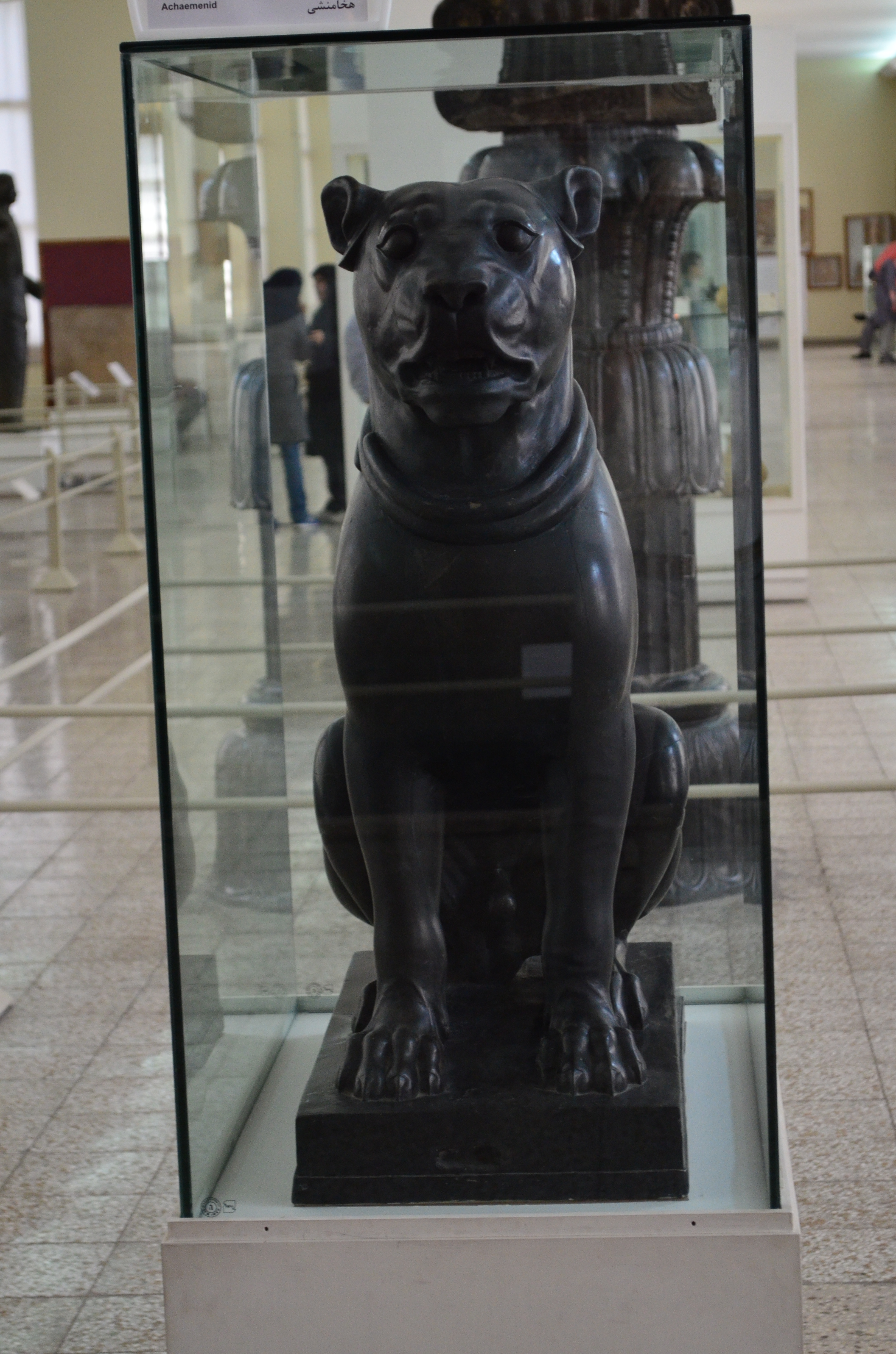 National Museum of Iran National Museum of Iran Native name